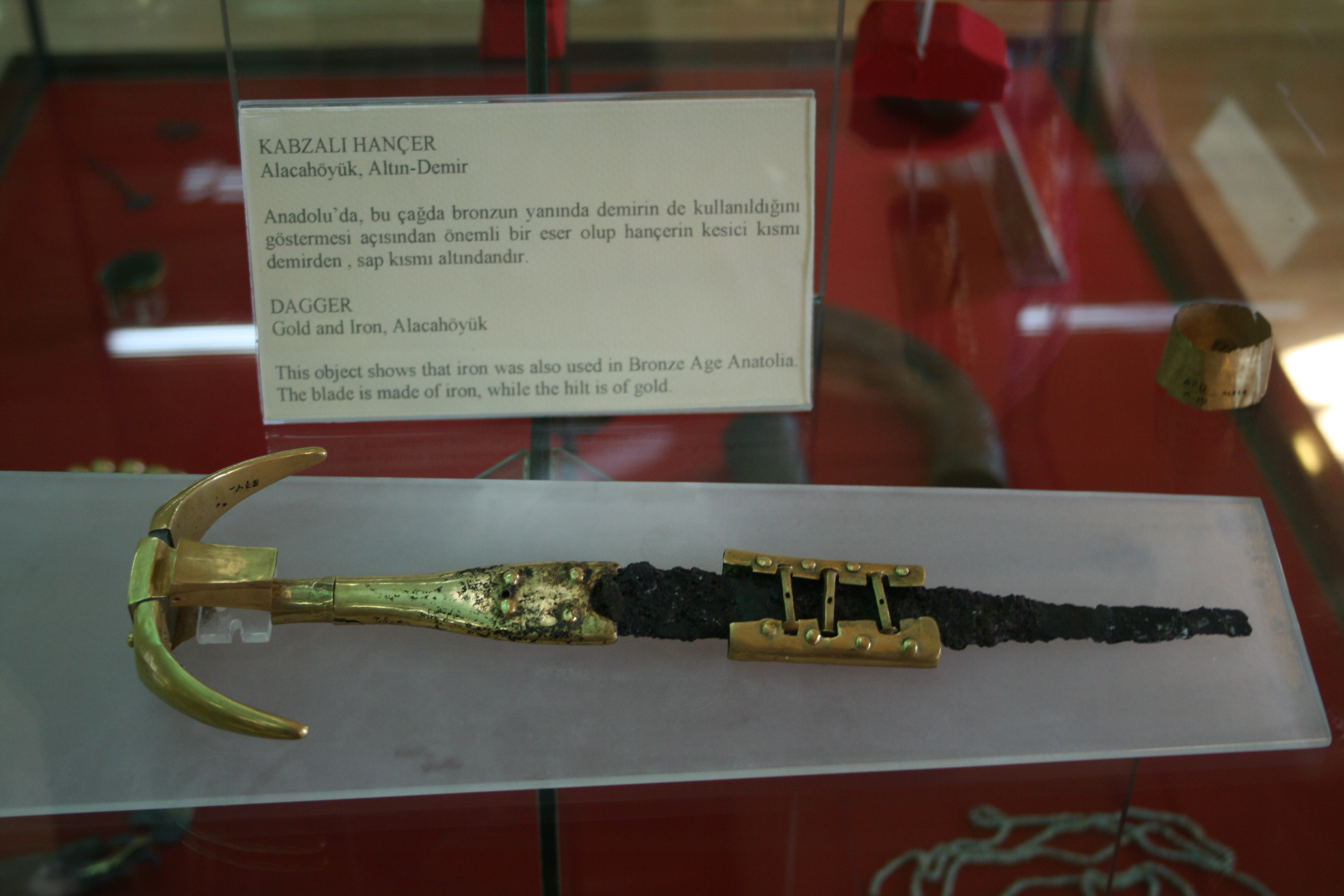 A dagger from Alacahöyük, an archaeological site in Turkey. It is made up of iron and gold, lenght 18.5 cm. It dates back to Bronze Age, 2500-2000 BC.